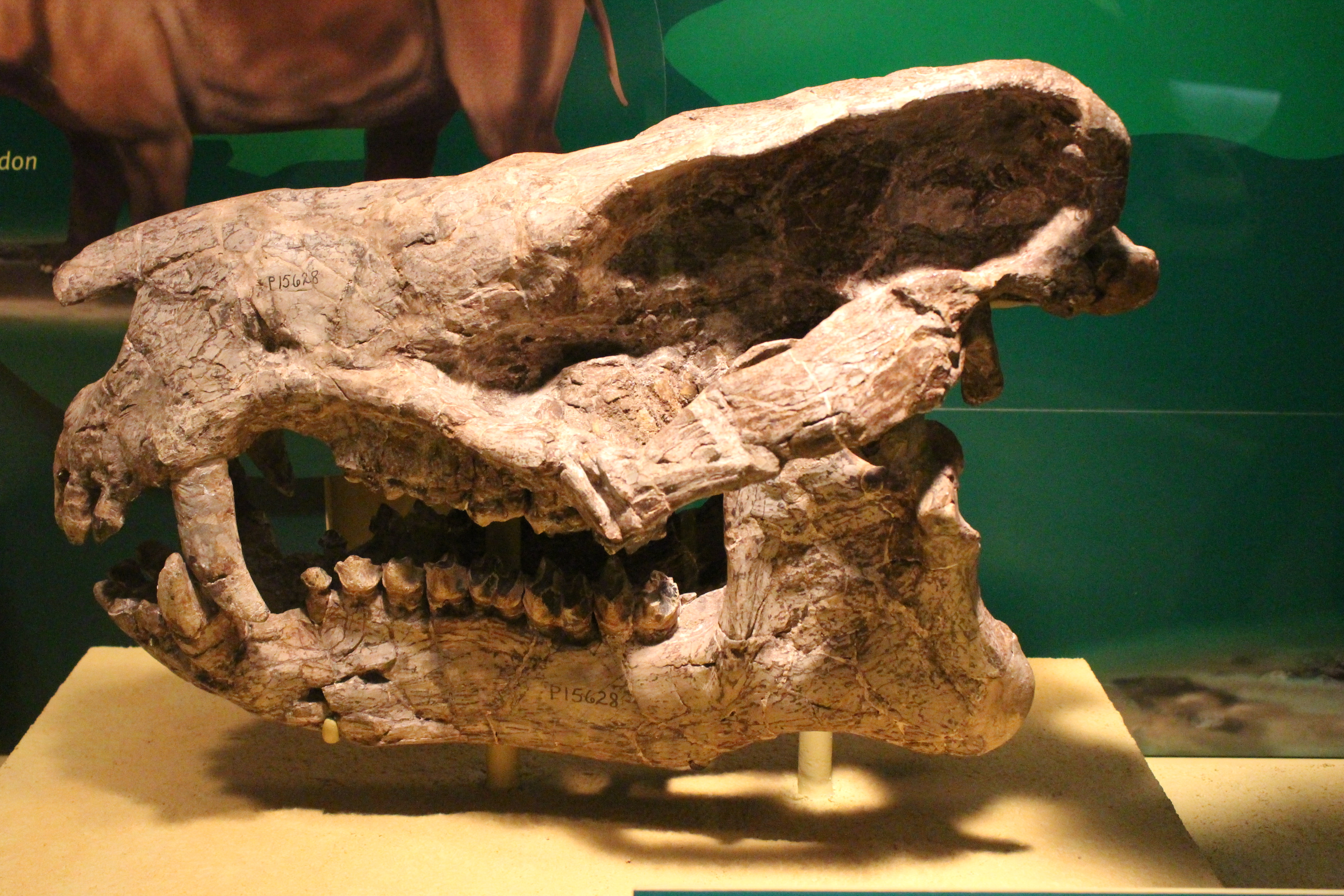 Coryphodon lobatus skull on display at the Field Museum of Natural History.